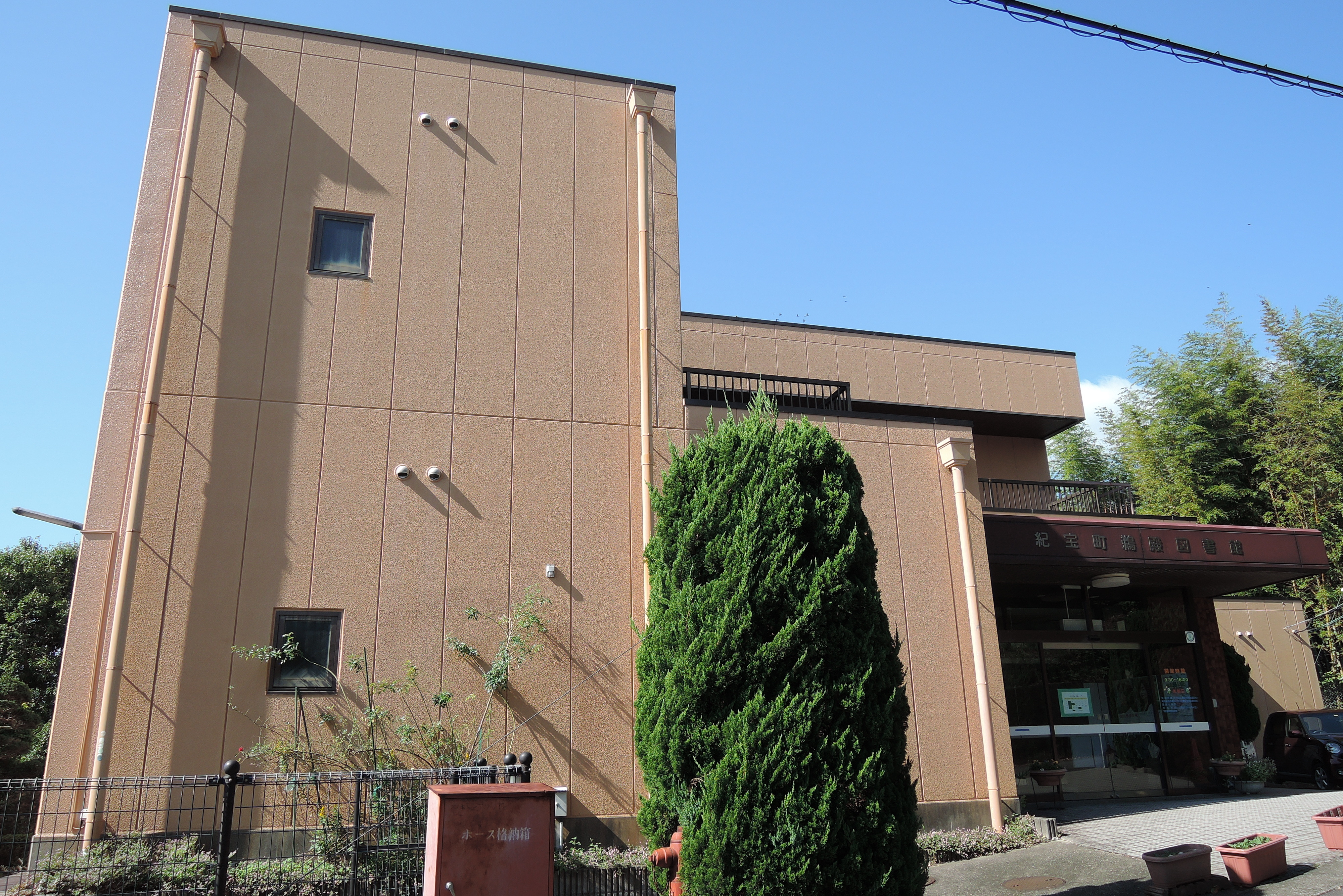 Kiho town Udono library,Mie prefecture,Japan